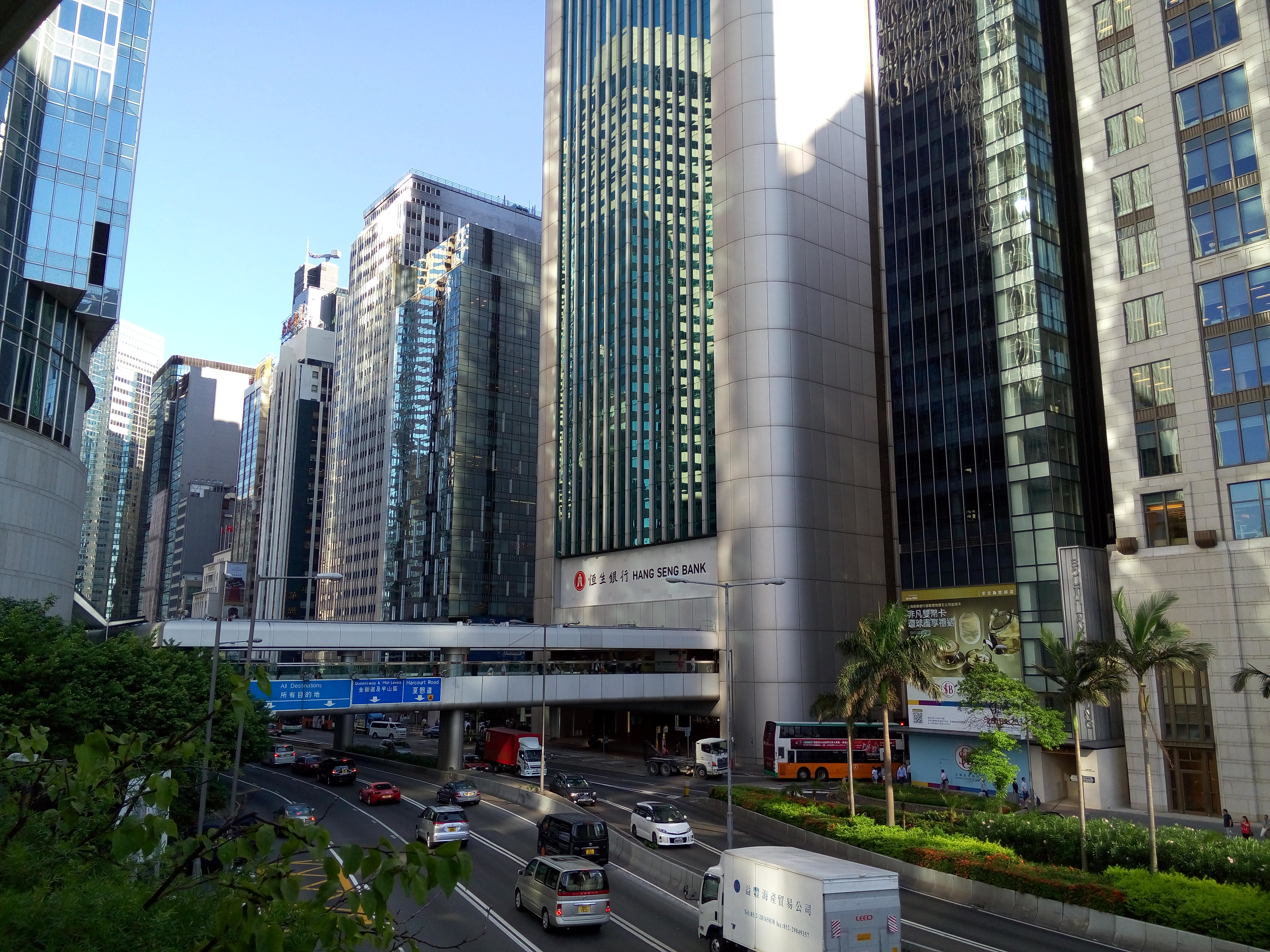 from a pedestrian bridge over Connaught Road Central